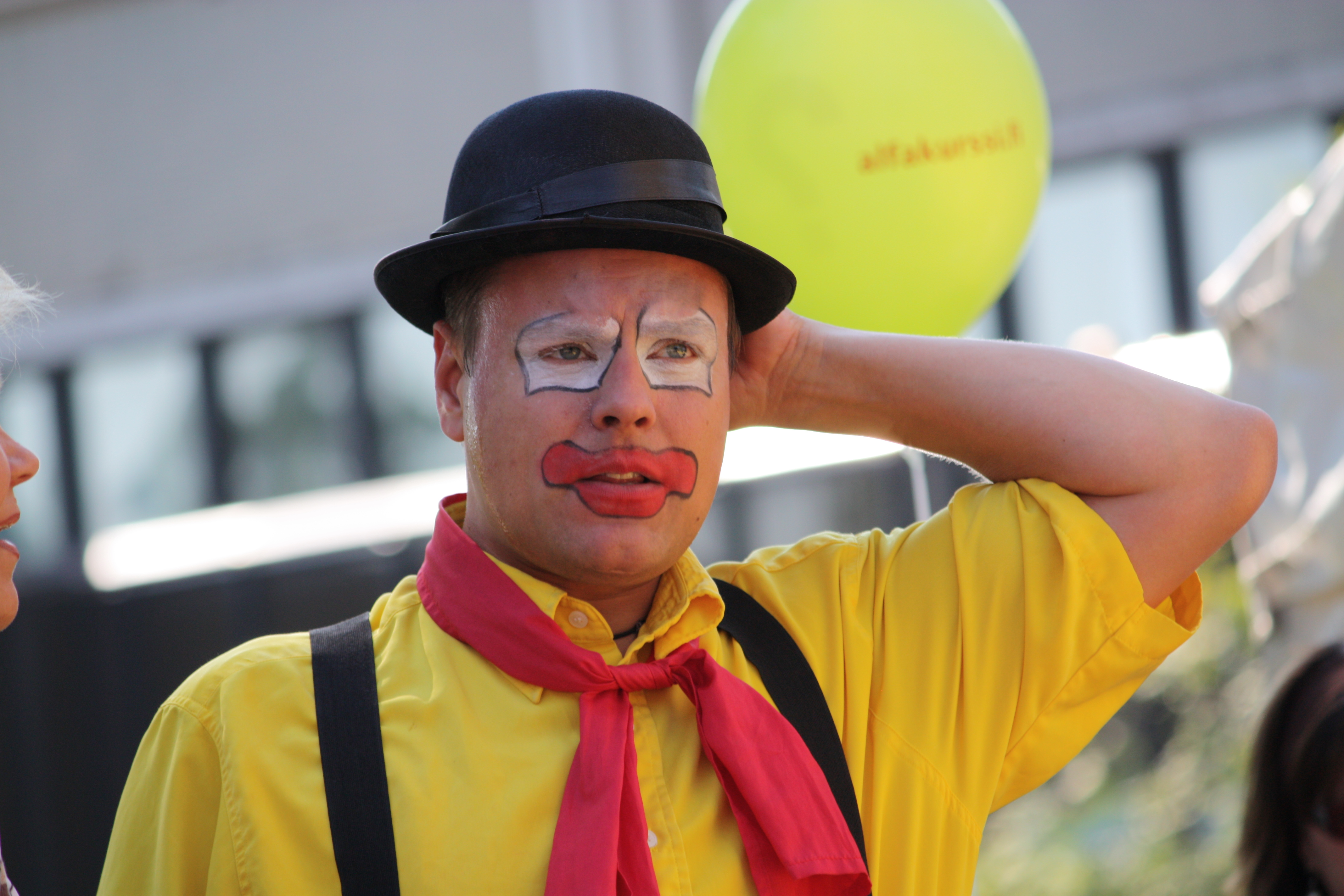 Pelle Positiivi with his band was perfoming on Aurinkomäki Stage during The Garlic Festival 2012